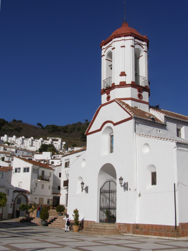 Church of San Pablo de Verona, Genalguacil, Málaga, Spain